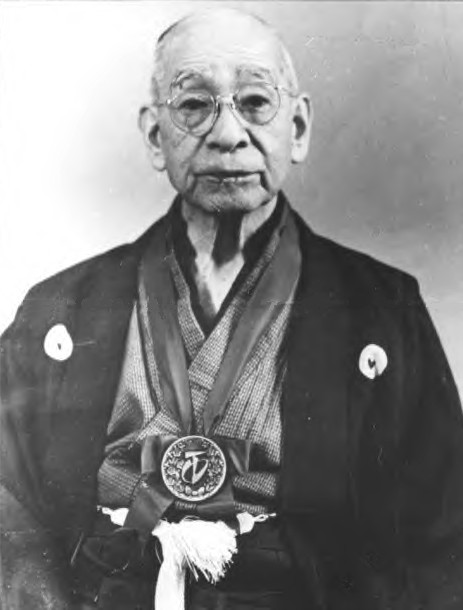 Chosin Chibana